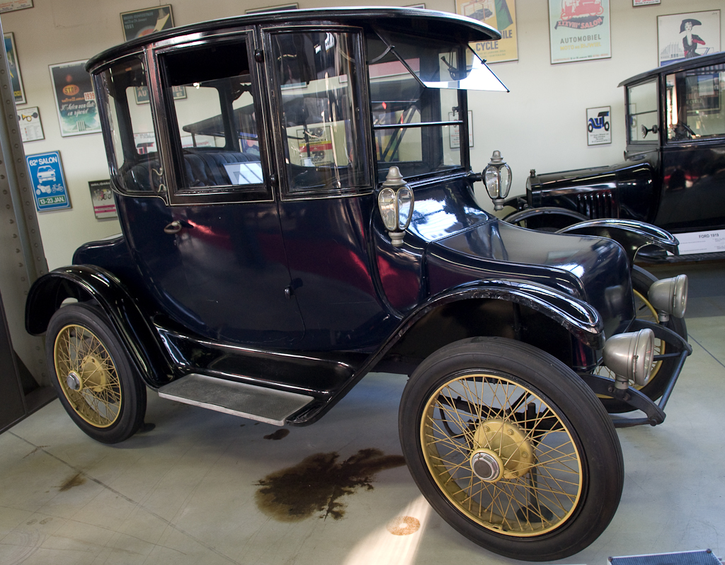 1916 Detroit Electric in Brussels Autoworld Museum. Showroom sign: "The special feature of this car is that both the bonnet and boot spaces were used to carry batteries used to propel the car. The 'Brougham' body was typical of American electric cars, which were appreciated in city use for being clean and quiet, and were highly valued for social events such as parties, galas, theatre visits, etc." Has the car industry really learned anything since then?